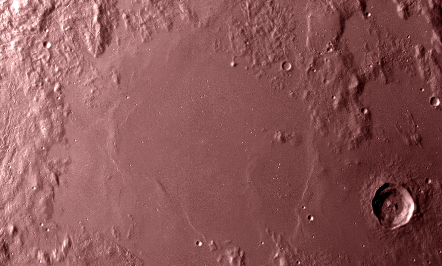 Sea of Vapors, on the Moon. Infrared image in L band centred on 3.75 micrometres. Taken with the SIRCA camera by M. Gålfalk, G. Olofsson, and H.-G. Florén. Nordic Optical Telescope, Stockholm Observatory. More images can be found here.